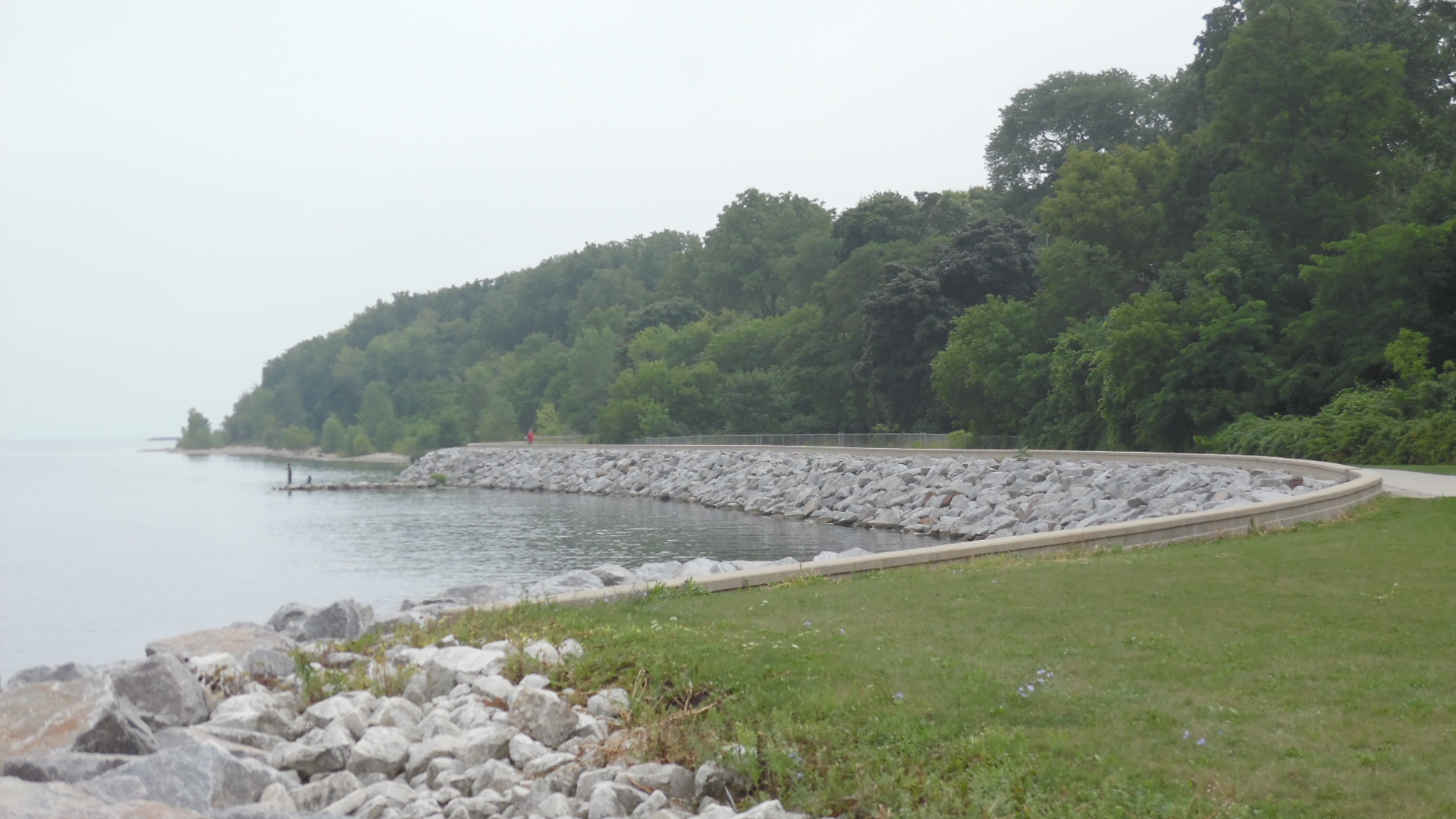 Bay View Park along the Oak Leaf Trail